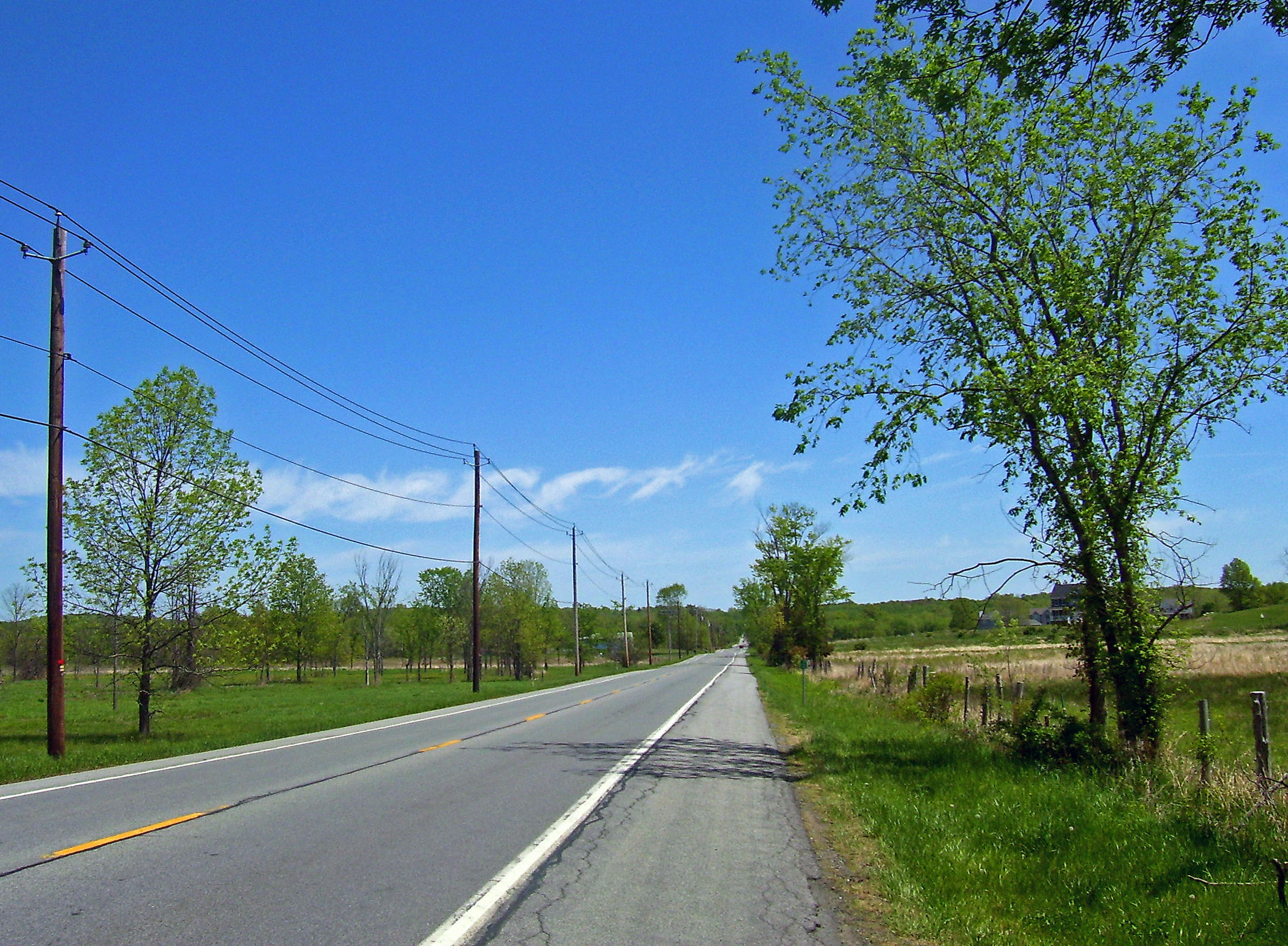 Photographed by Daniel Case 2007-05-16